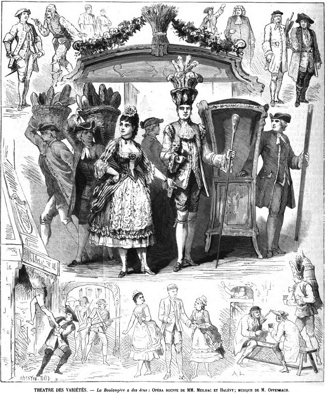 La Boulangère a des écus, opéra-bouffe by Jacques Offenbach. Lithography by Burn Smeeton and August Tilly, published in L'Illustration.